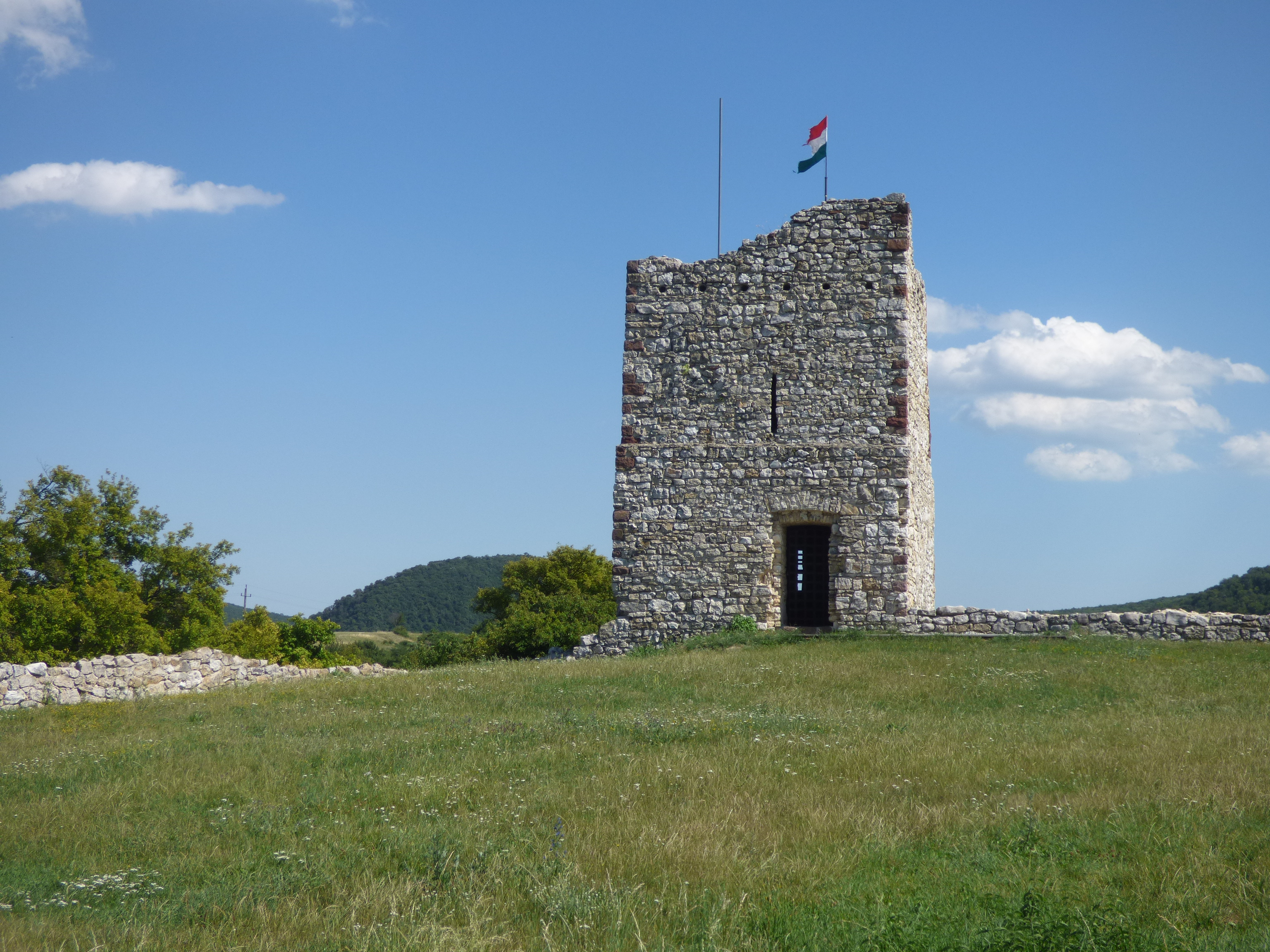 Essegvár öregtornya nyugat felől